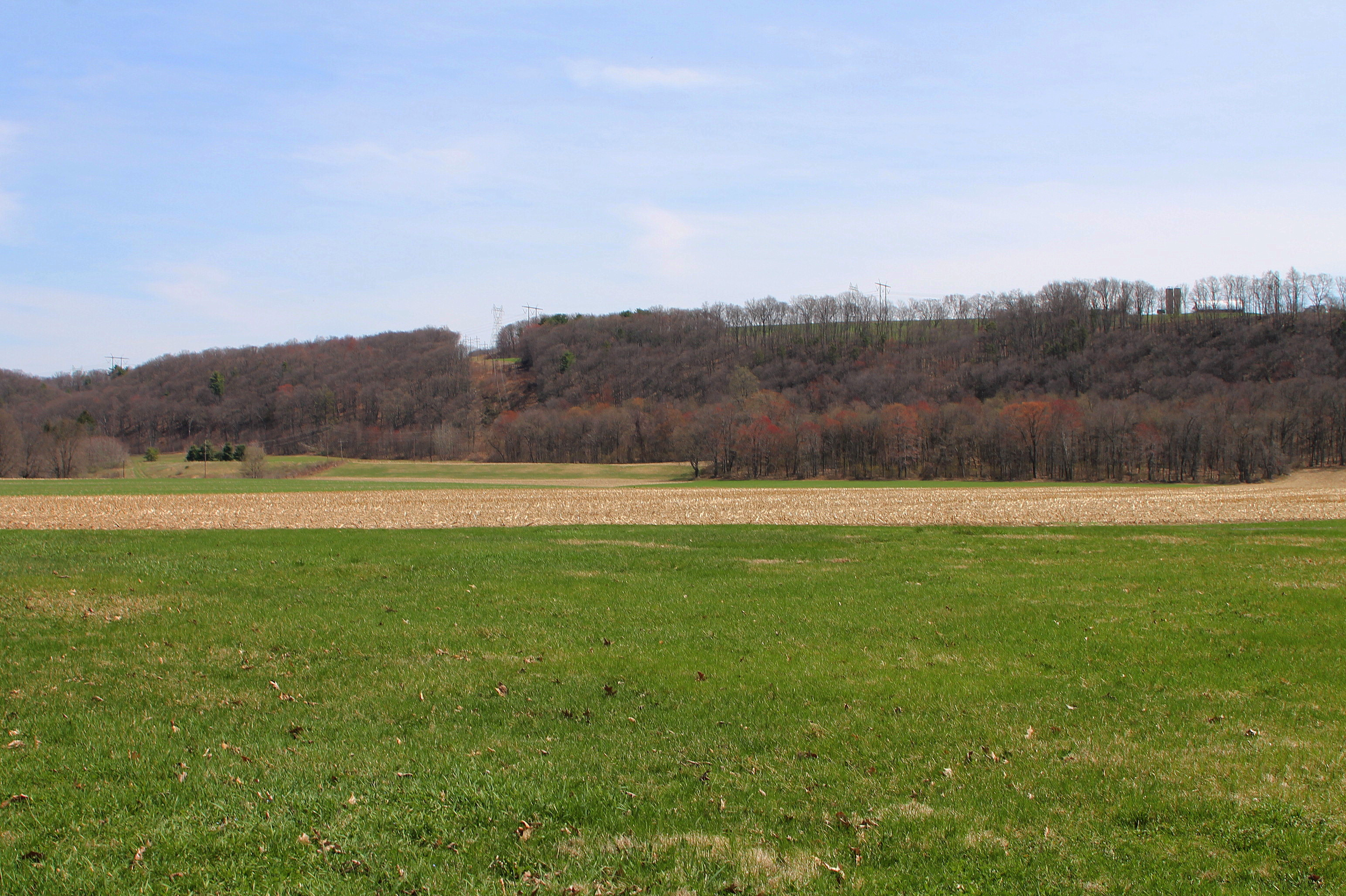 Scenery of Nescopeck Township, Luzerne County, Pennsylvania near Nescopeck